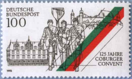 Briefmarke zum CC Jubiläum 125 Jahre (MiNr: 1676)